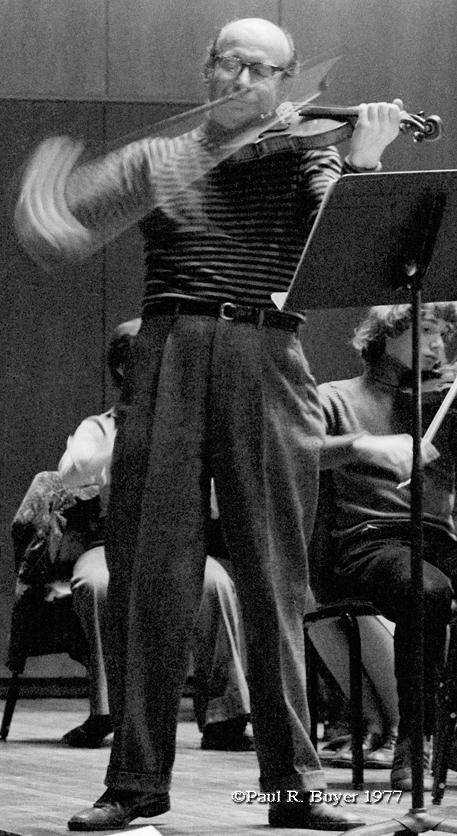 Paul Rolland ca. 1977. University of Illinois, Great Hall: Krannert Center for the Performing Arts. Rehearsal with the National Academy of Arts Orchestra, Donald Miller, conductor. Paul R. Buyer photo